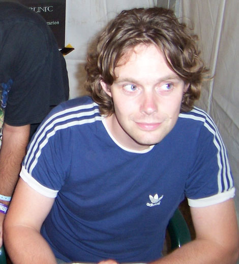 Frank Boeijen from The Gathering